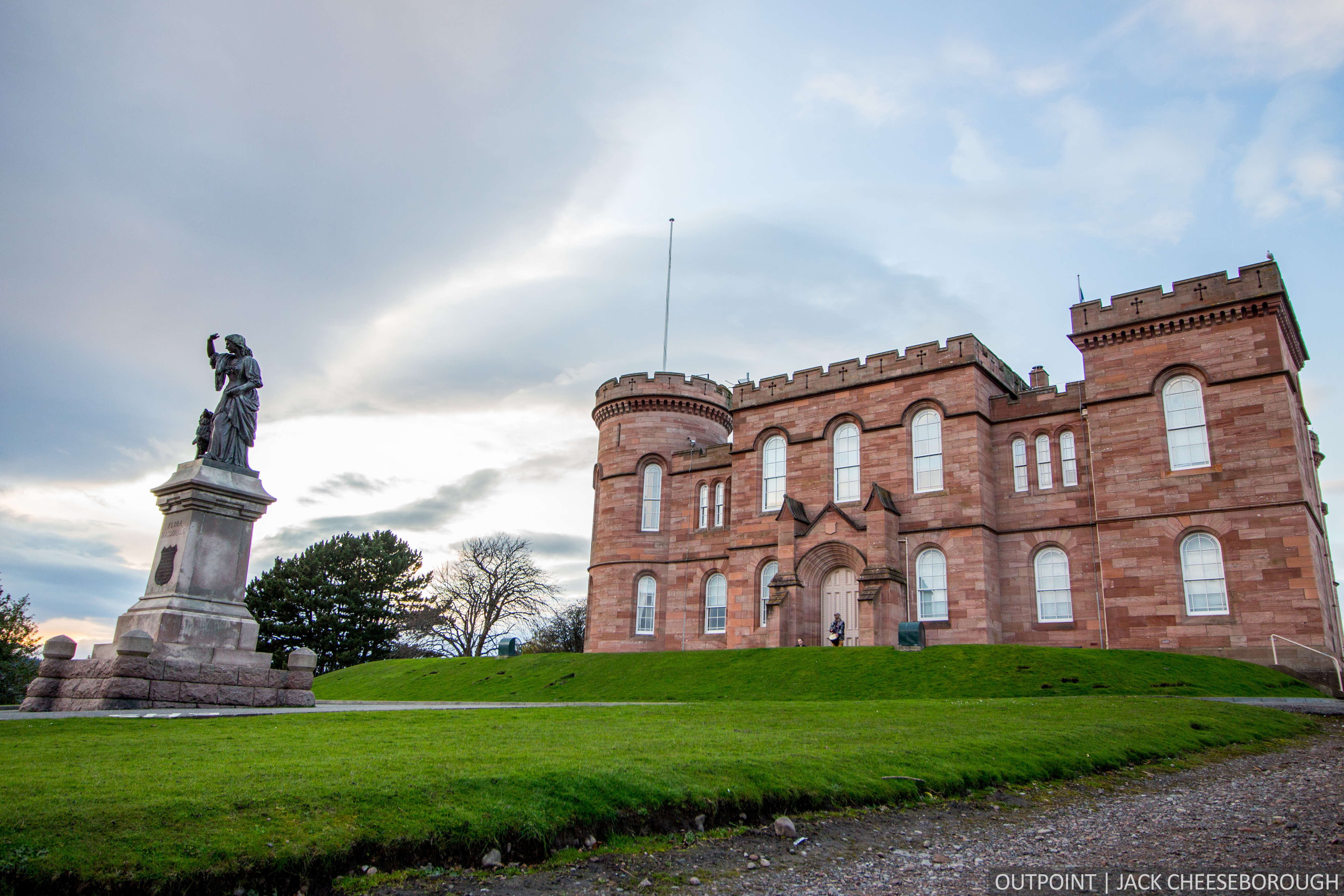 Wide angle shot of Inverness Castle in 2016